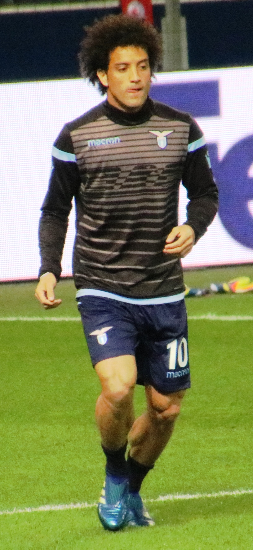 UEFA Euro League Quarterfinals 2nd leg